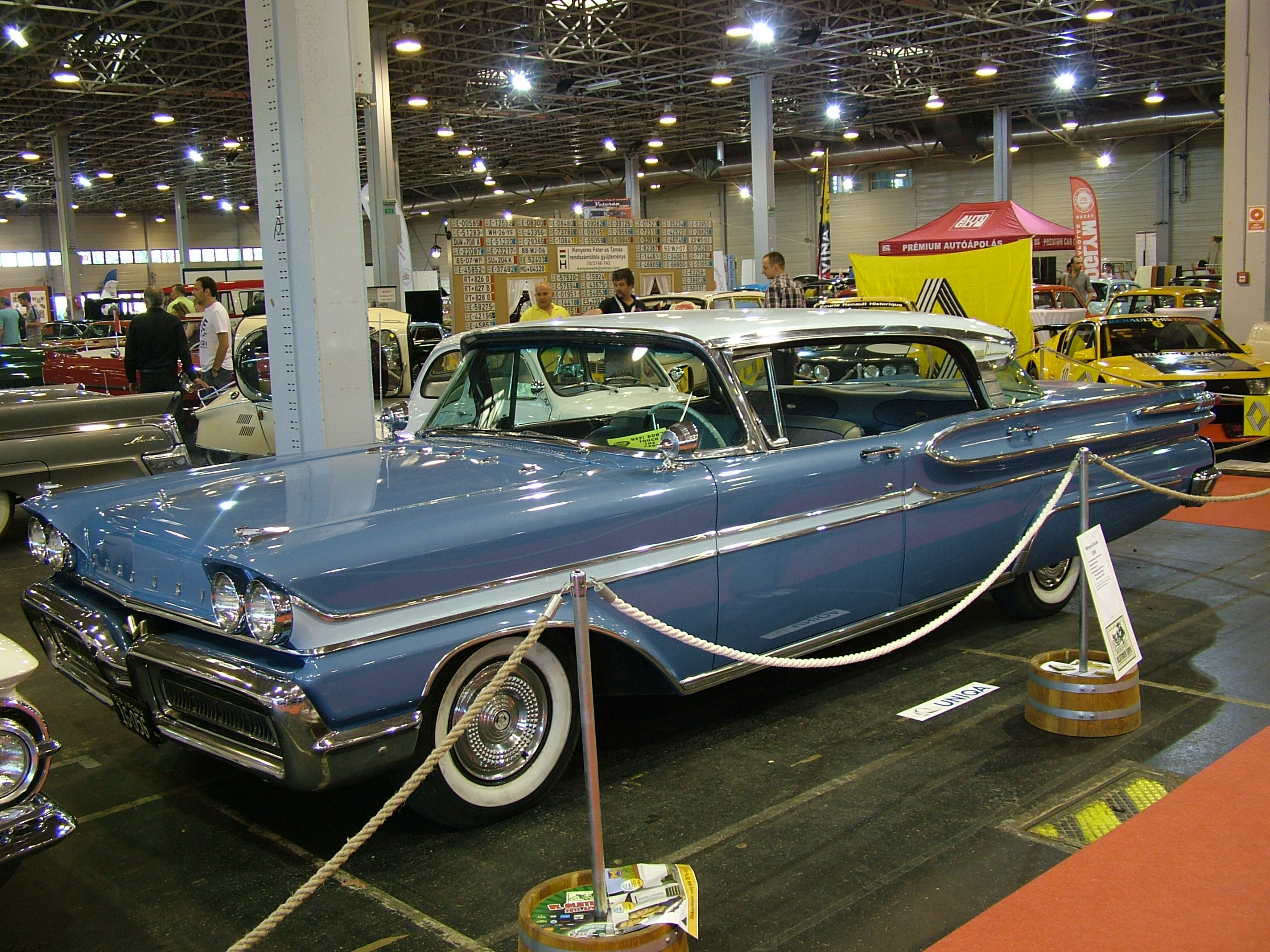 1958 Mercury Park Lane Phaeton Sedan